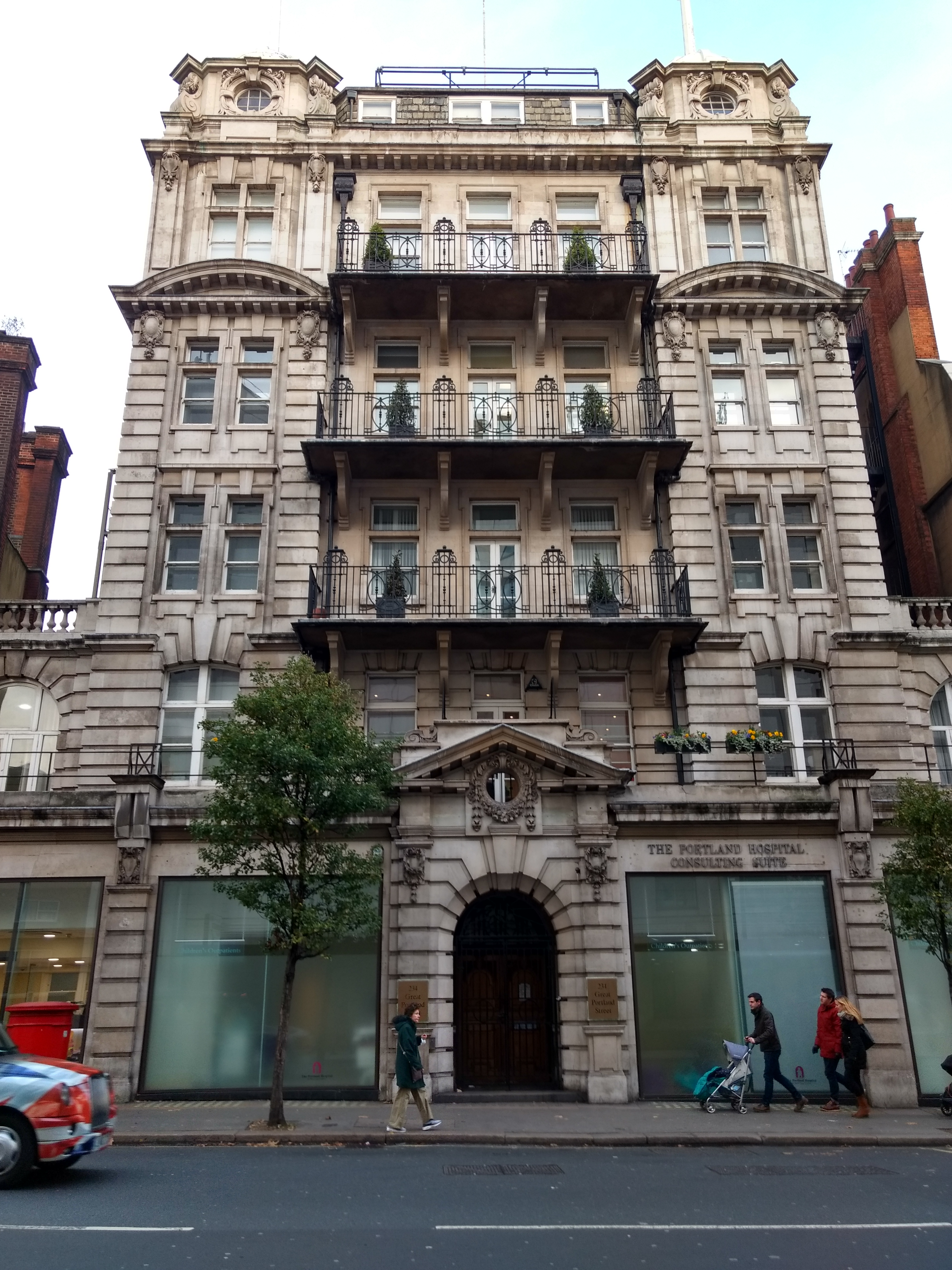 Portland Hospital consulting suite, 234 Great Portland Street